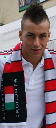 Stephan El Shaarawy, Italian footballer